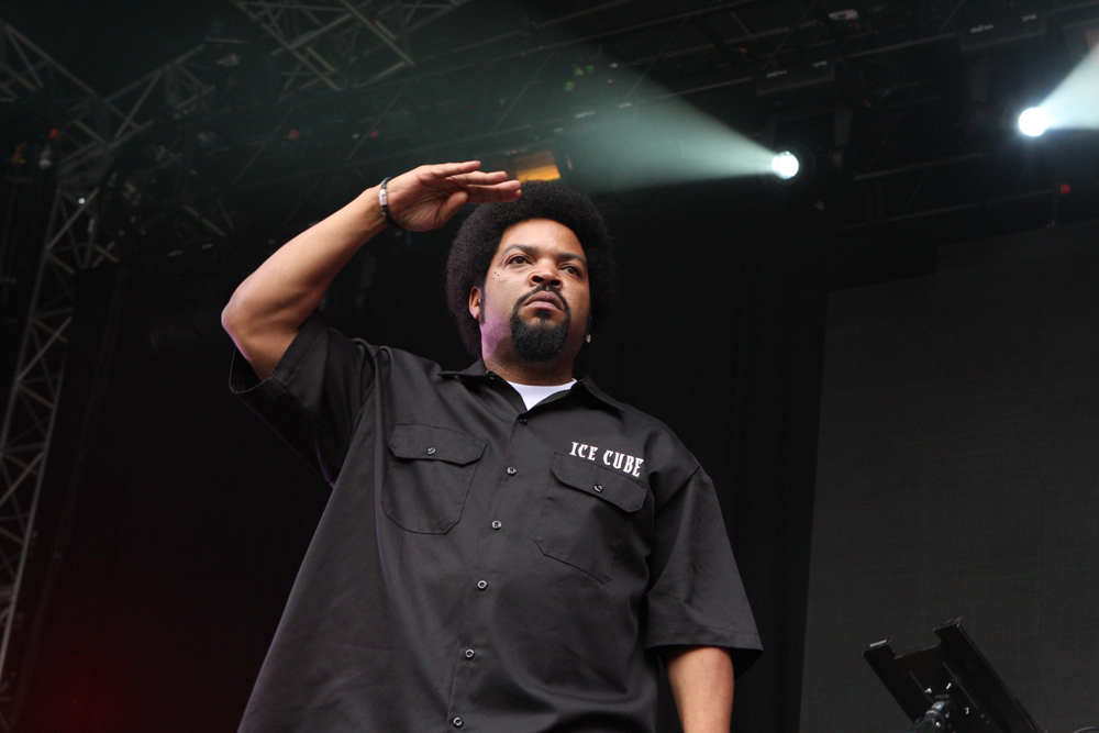 Ice Cube playing Supafest 2012, Sydney, Australia